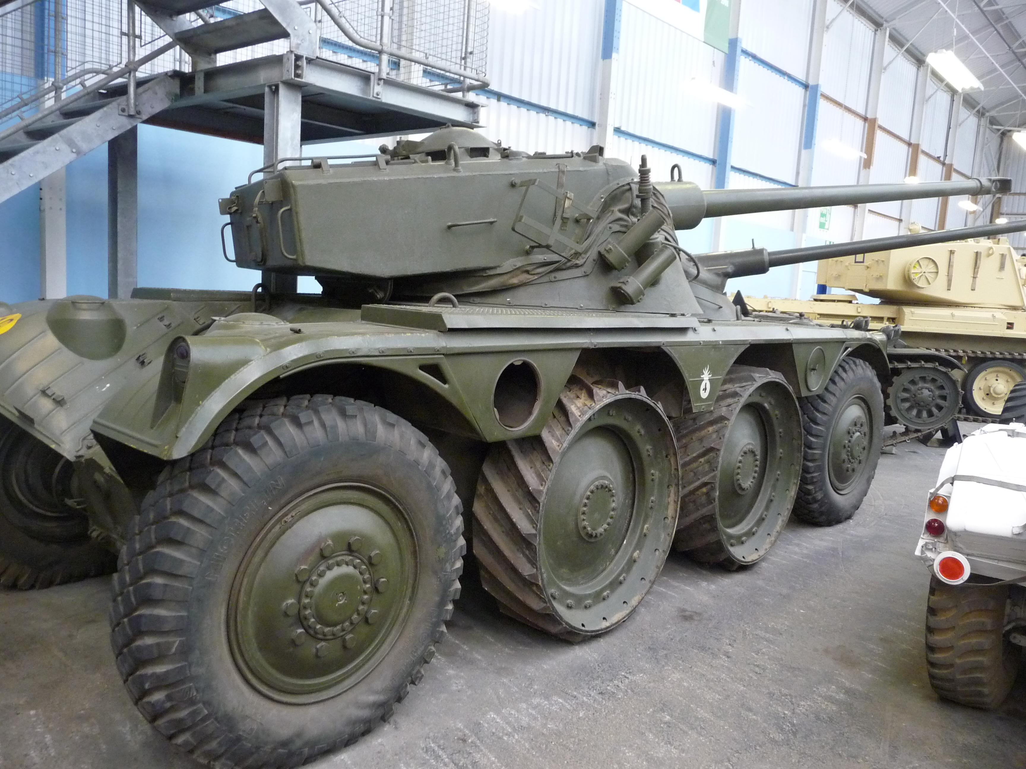 Panhard EBR 75 Heavy Armoured Car FL-10 Turret